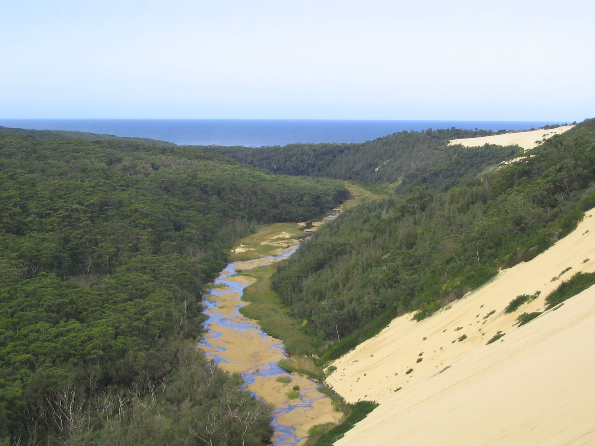 Thurra River from the Croajingalong sand dunes, Victoria, Australia.